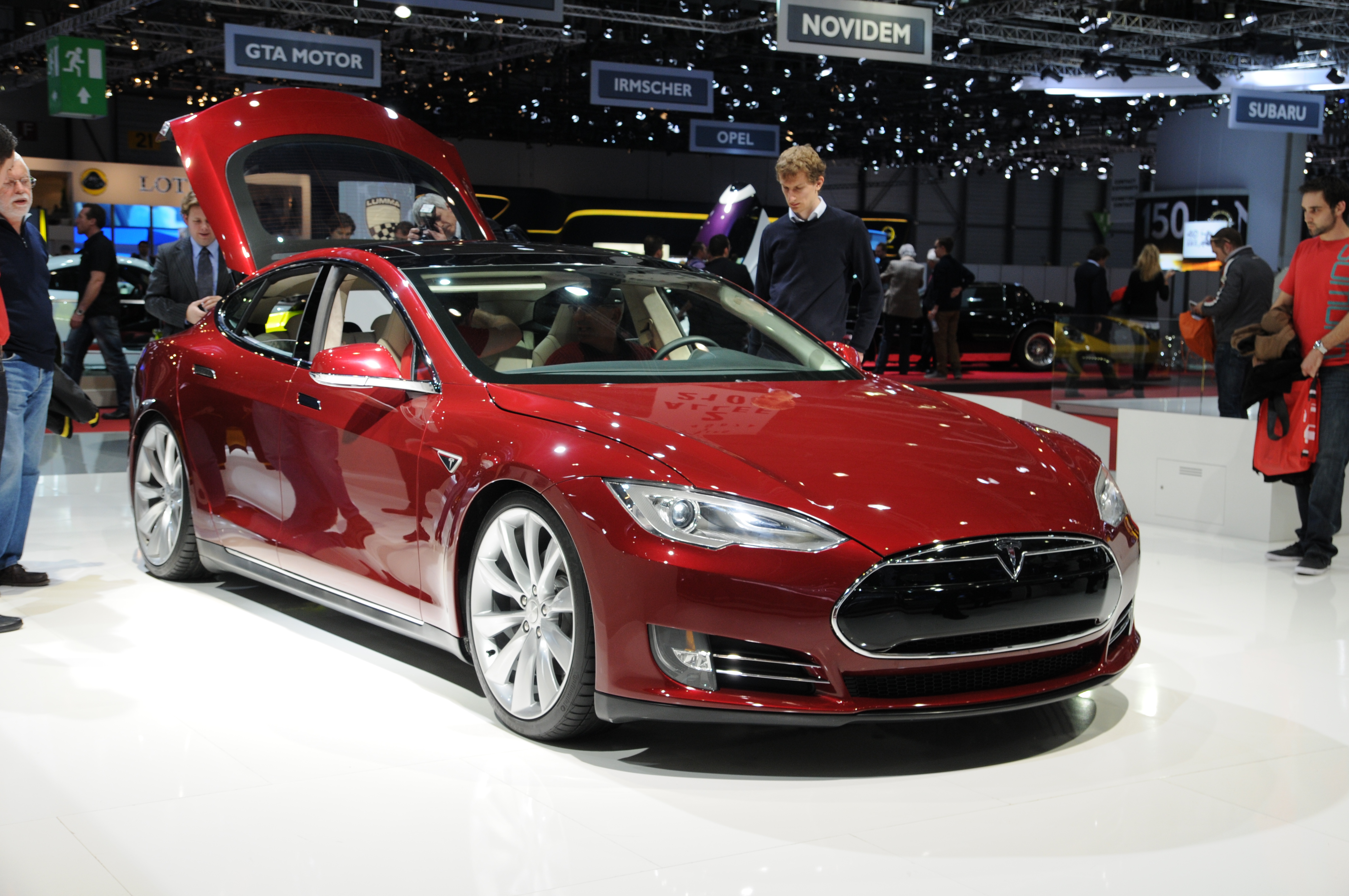 Geneva Motor Show 2012 (photos taken on the second press day)